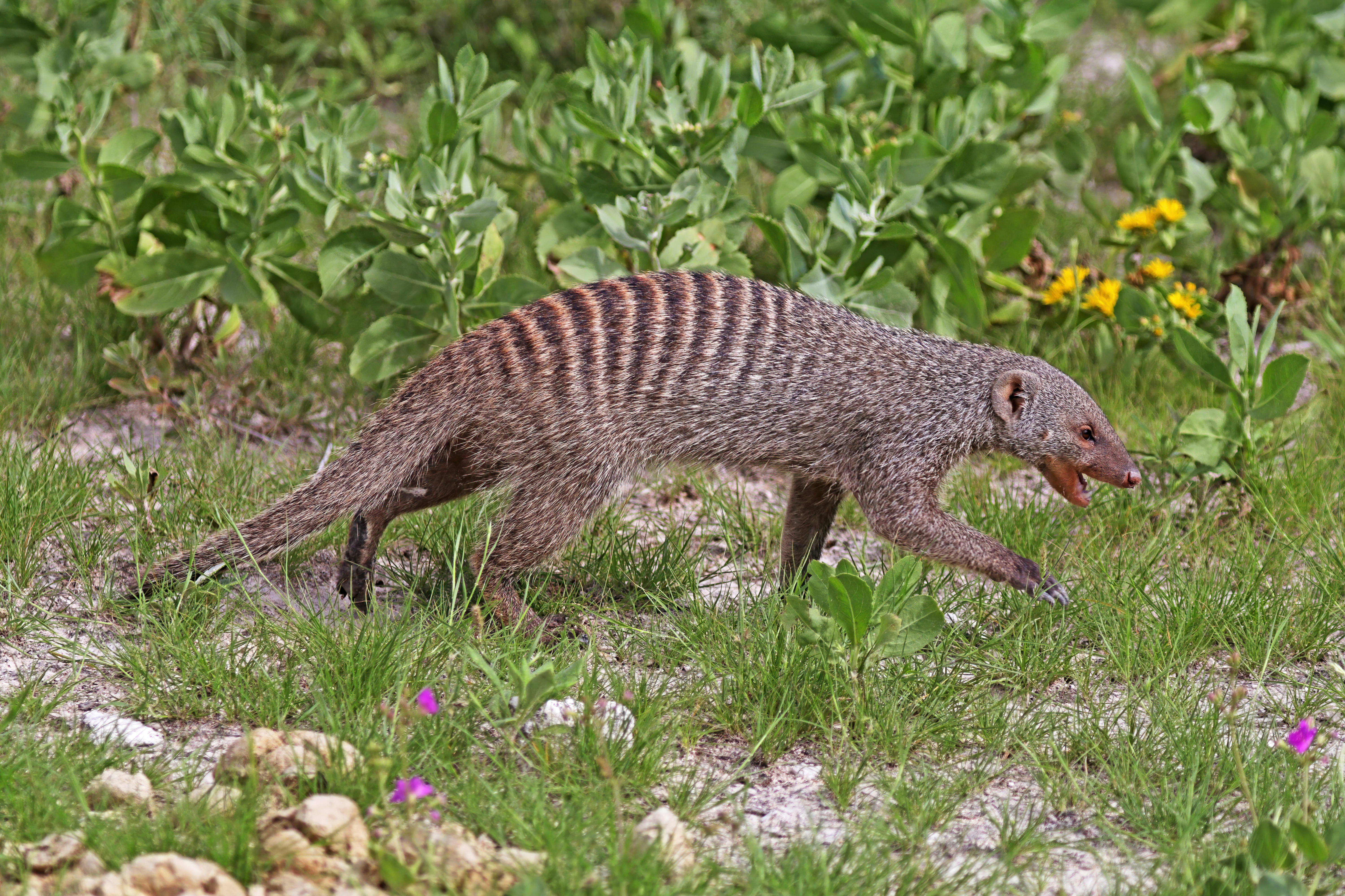 Banded mongoose (Mungos mungo), Etosha National Park, Namibia